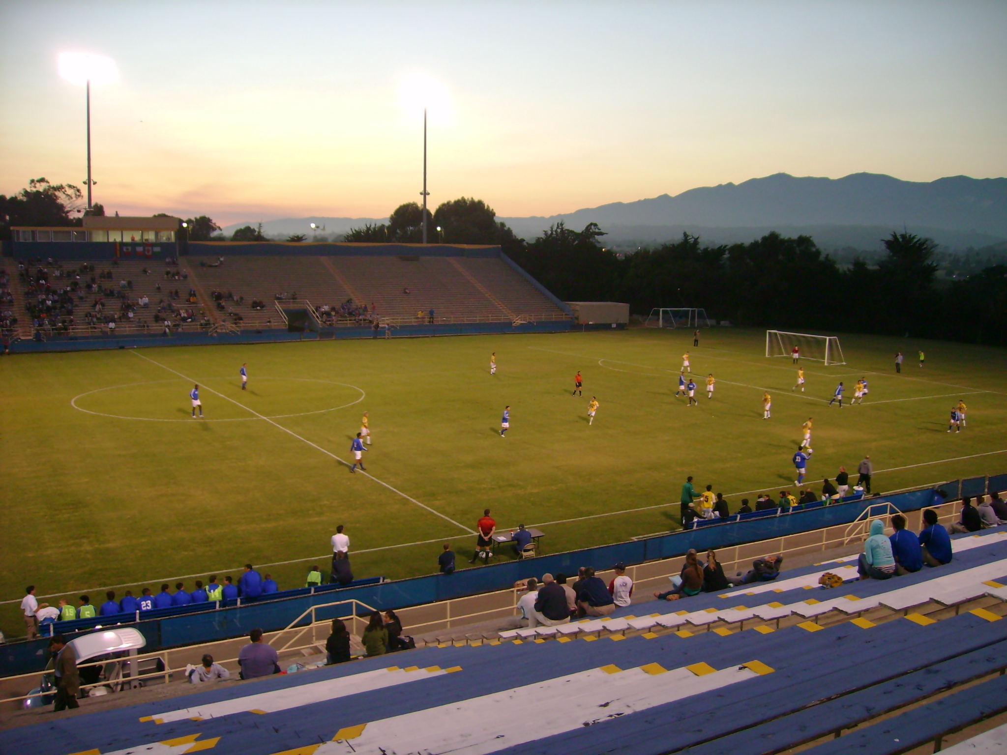 This is a sunset photograph of the University of California's harder stadium, looking northwest from the bleachers.